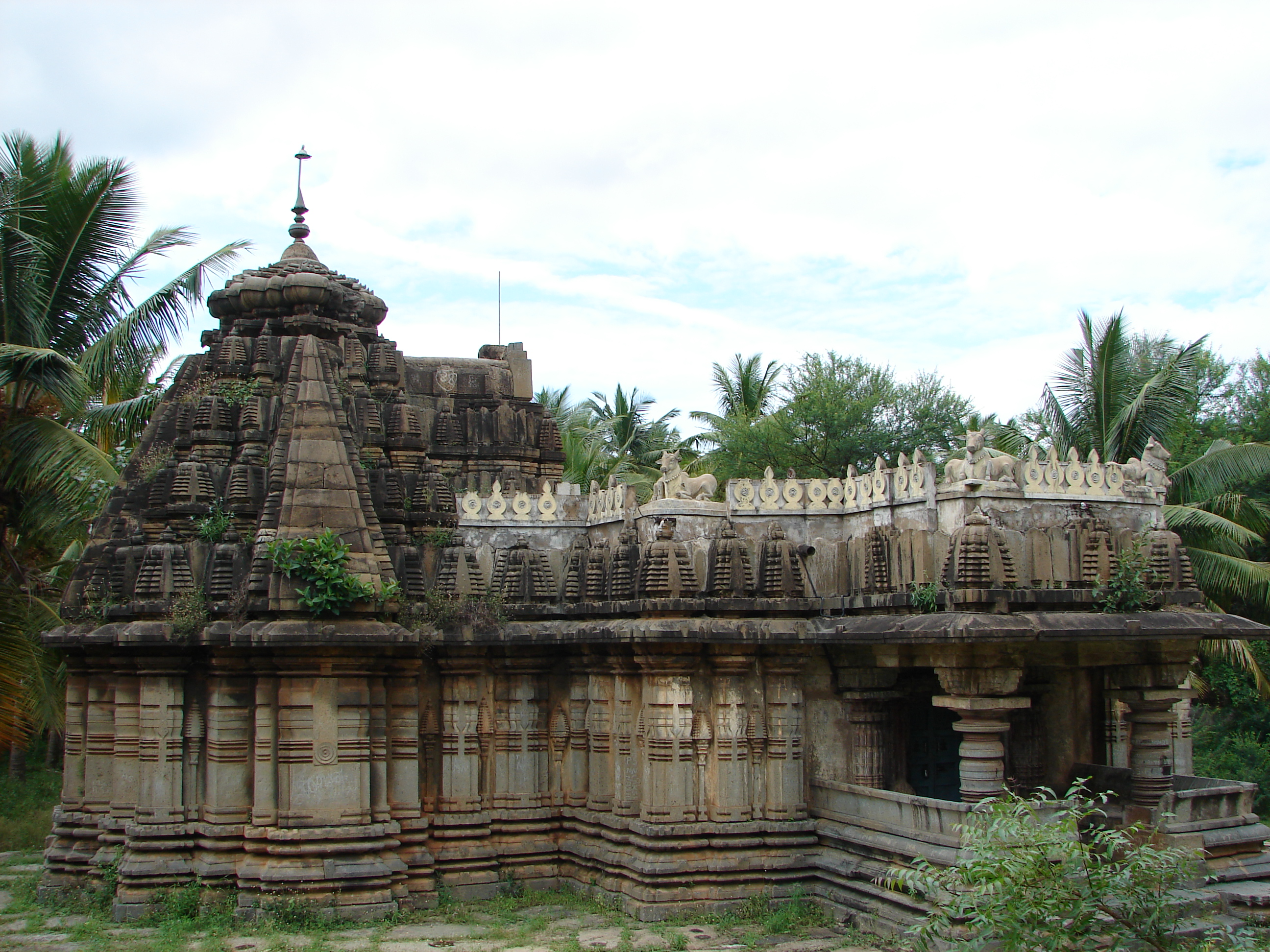 This photograph was taken by me at Shankareshvara temple (also spelt Shankareshwara or Sankareswara) in Turvekere, Tumkur district, Karnataka state, India. The temple was constructed around 1260 AD during the reign of Hoysala Empire King Narasimha III.